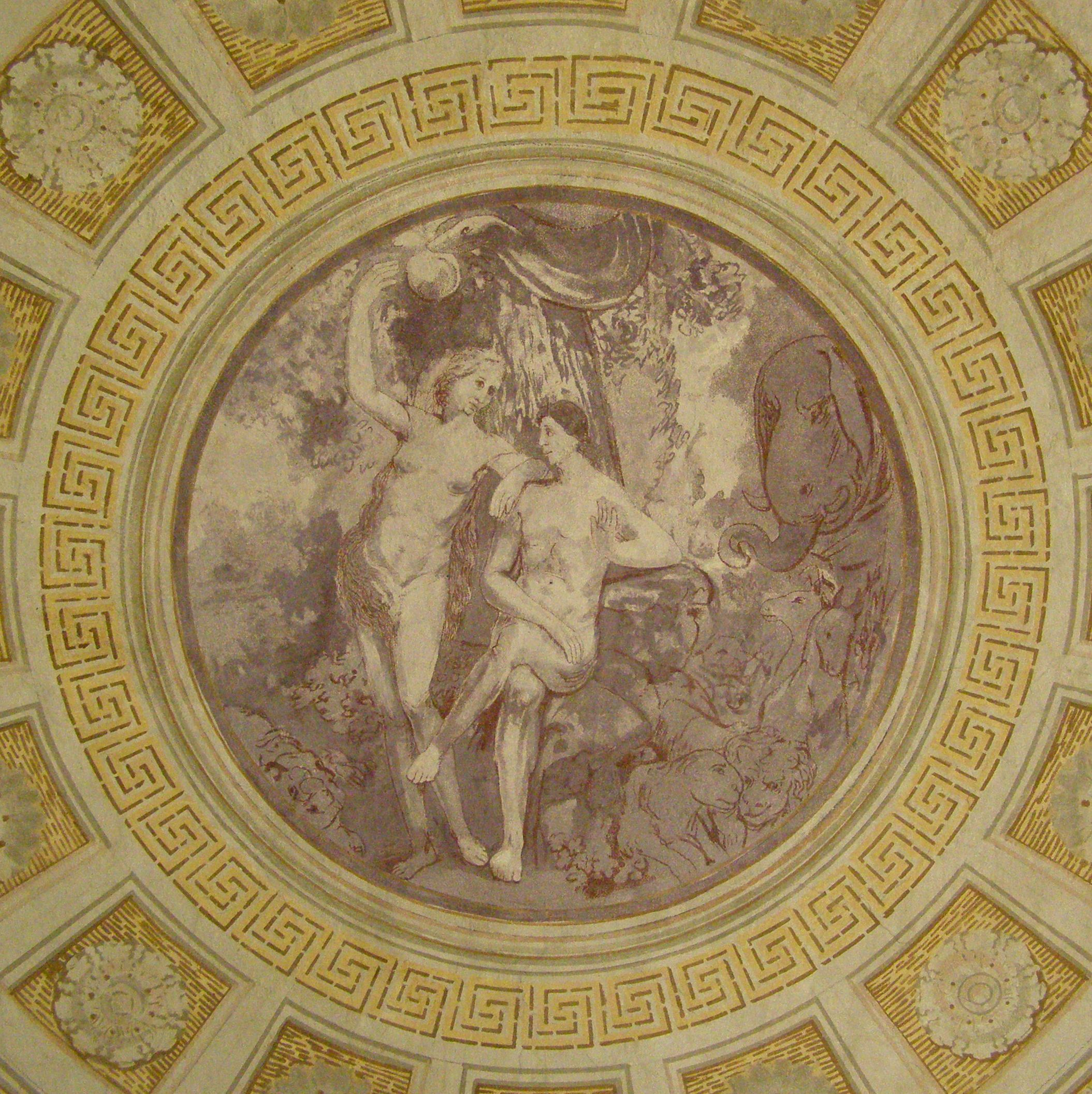 Calvary in Kcynia (fresco Eden)